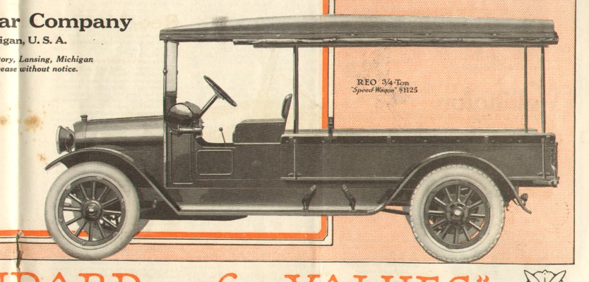 Reo Speed-Wagon (the truck)